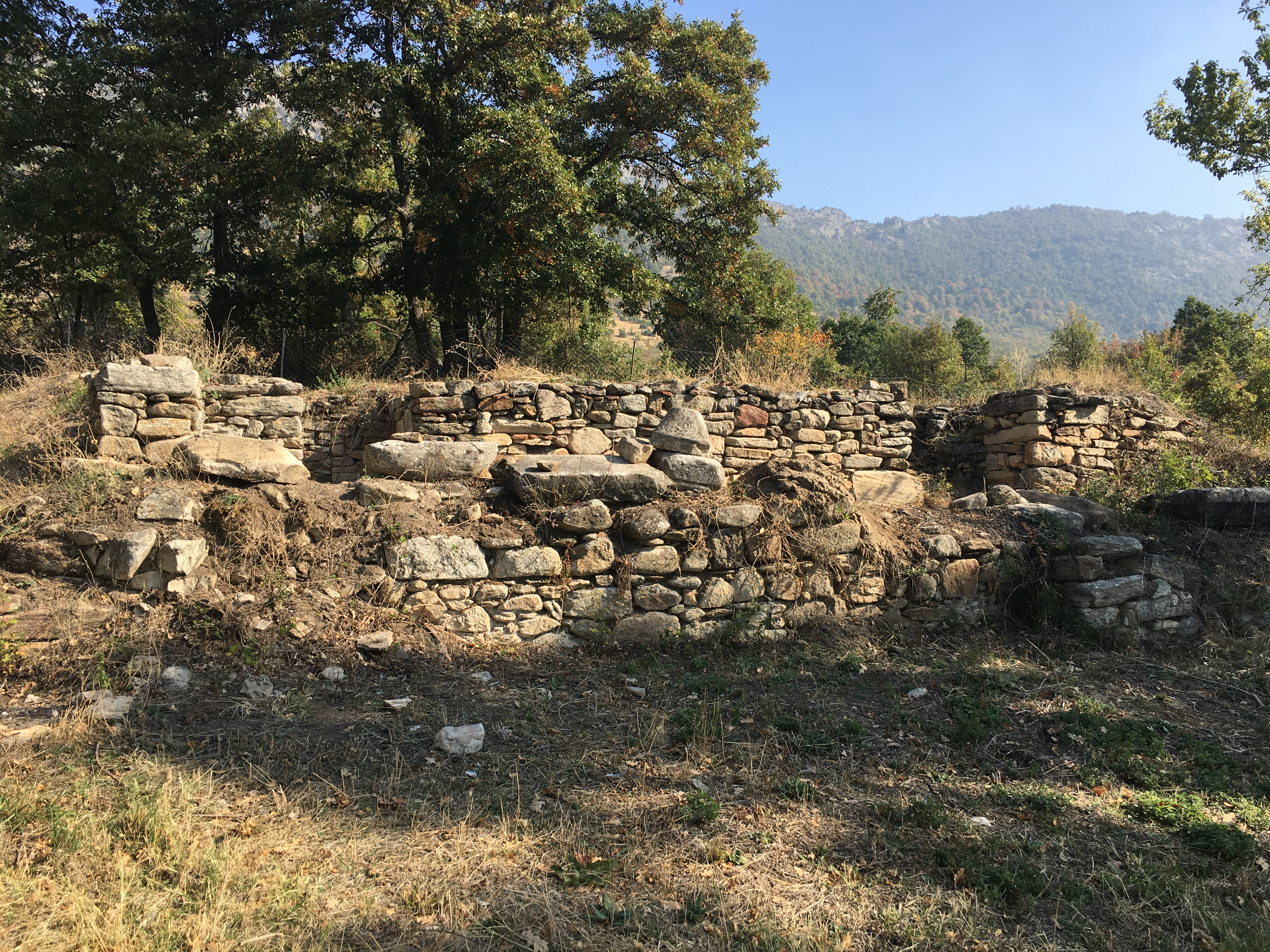 The archaeological site of Manastirište in Nebregovo Monastery's yard